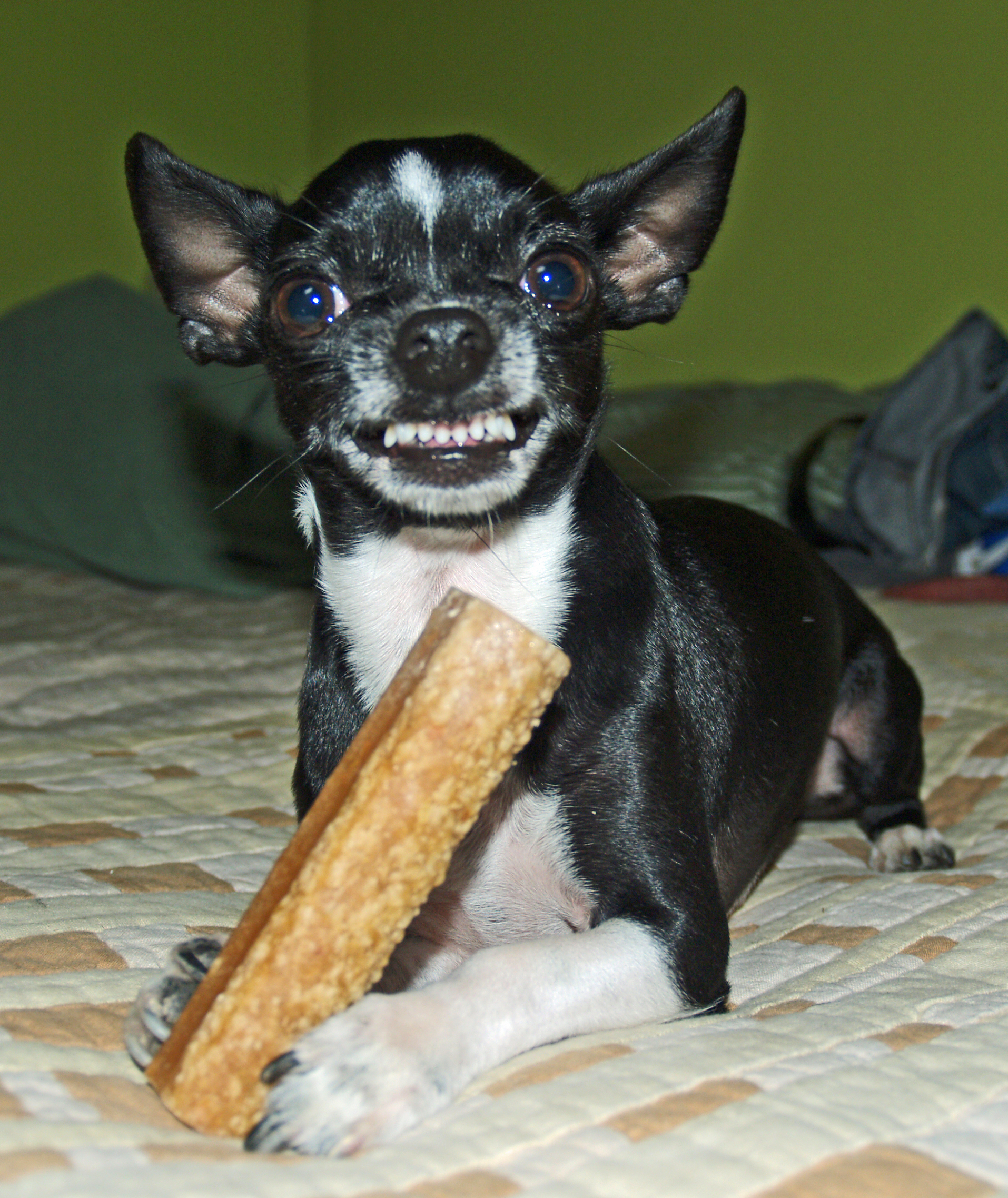 A Chihuahua baring his teeth at the threat of having his bone taken away.